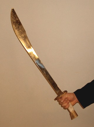 Picture of Chinese "Dao" Saber